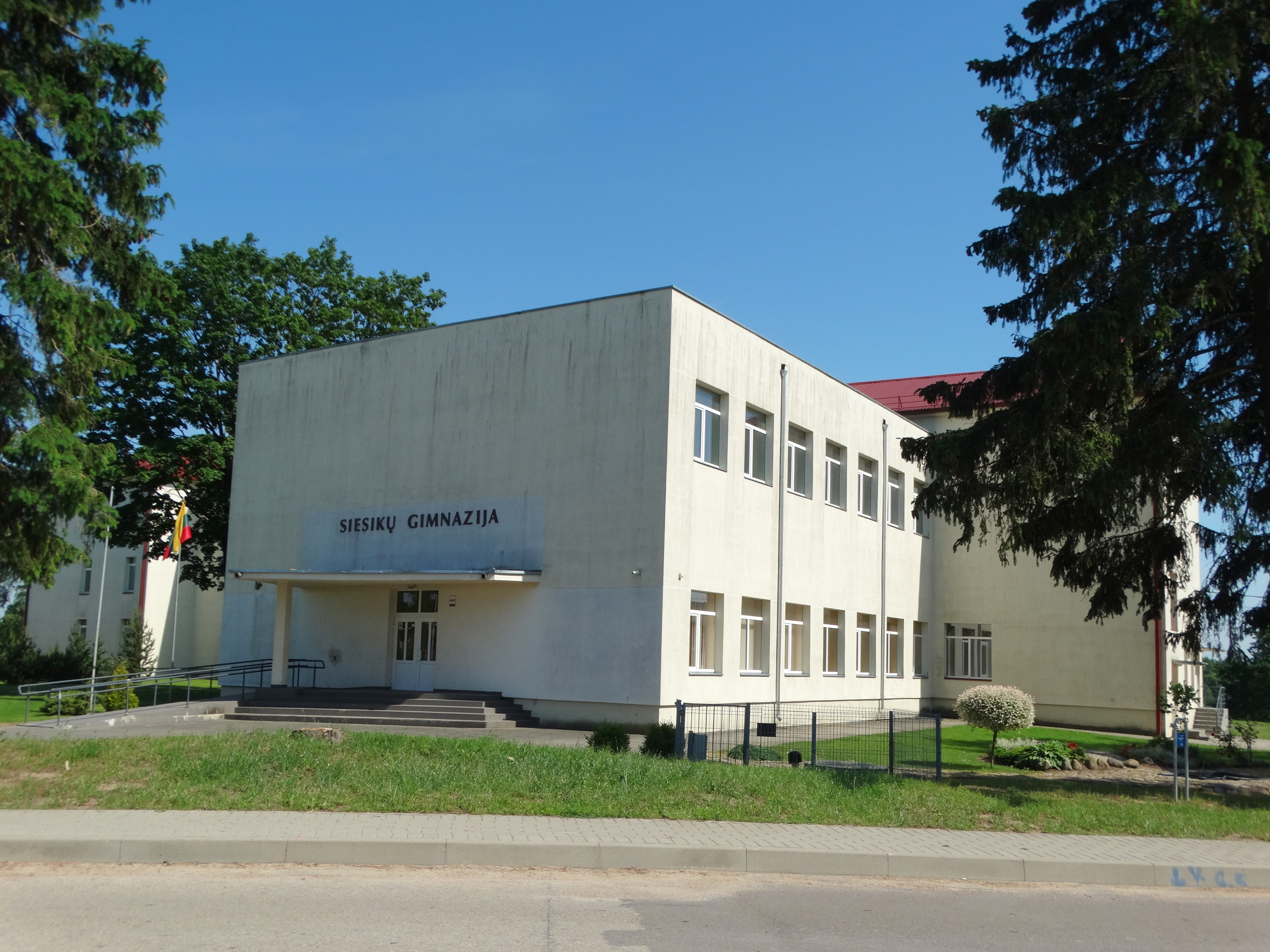 Siesikai, gymnasium, Ukmergė district, Lithuania